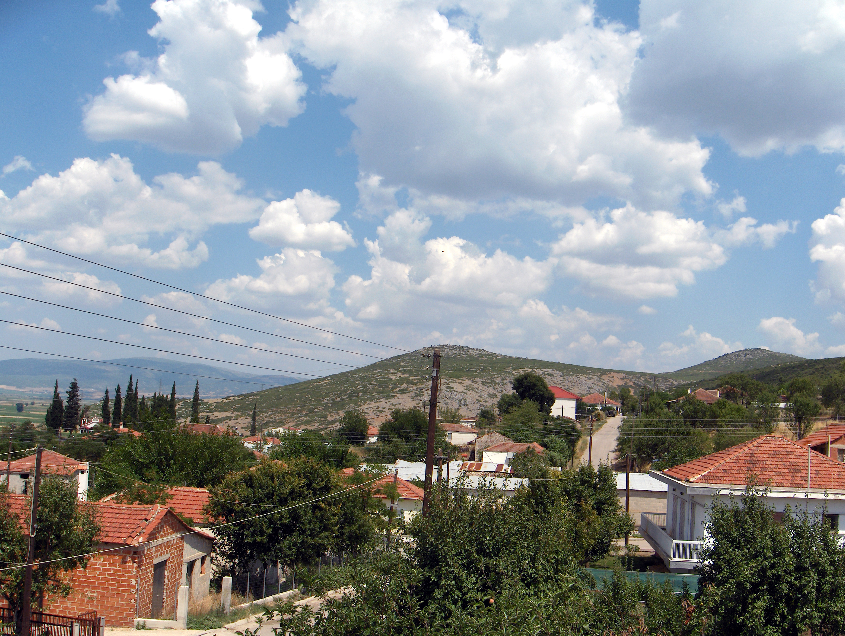 Ekkara, view of the village towards east